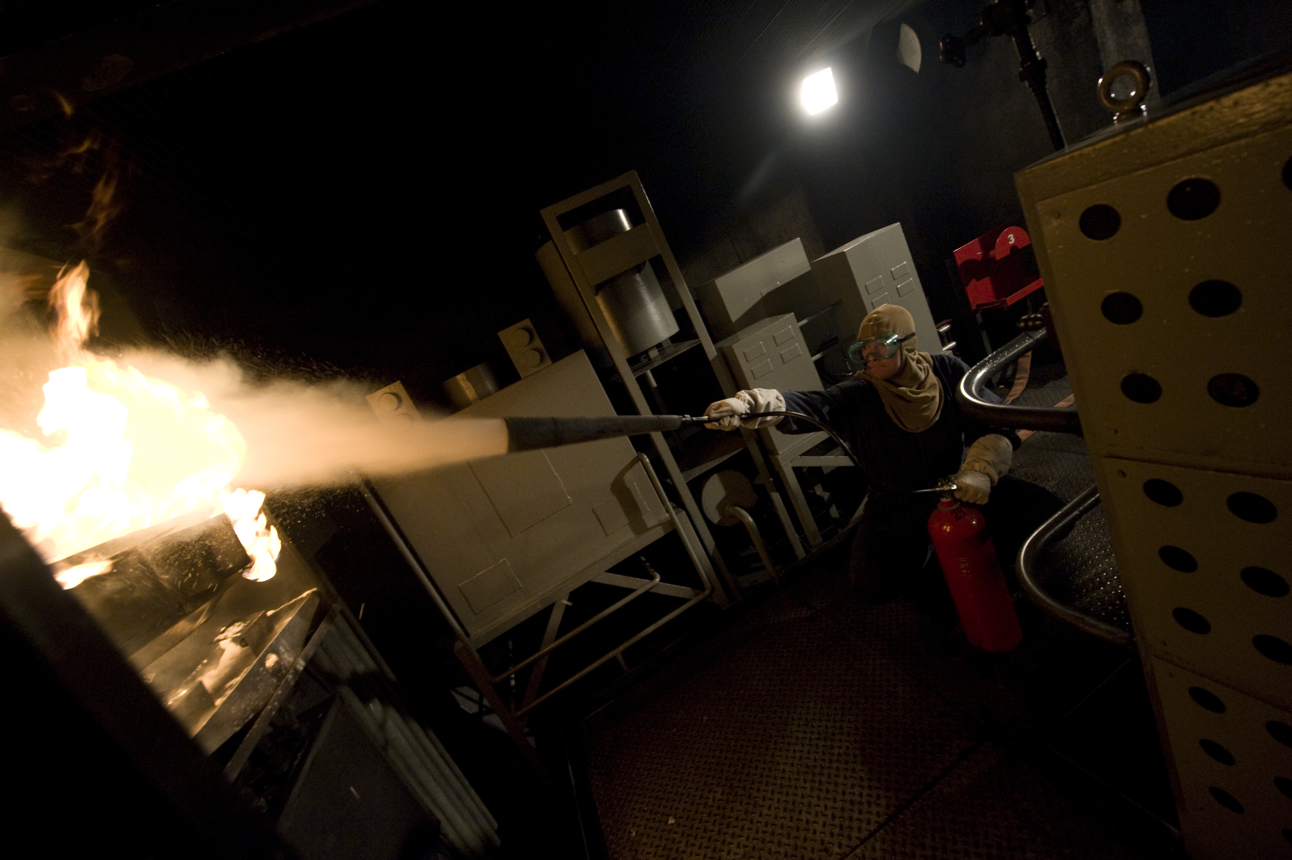 GROTON, Conn. (Jan. 20, 2010) A student extinguishes an electrical fire using CO2 in the damage control high-risk trainer at the Basic Enlisted Submarine School at Naval Submarine Base New London, Conn. (U.S. Navy photo by Mass Communication Specialist 2nd Class Jhi L. Scott/Released)